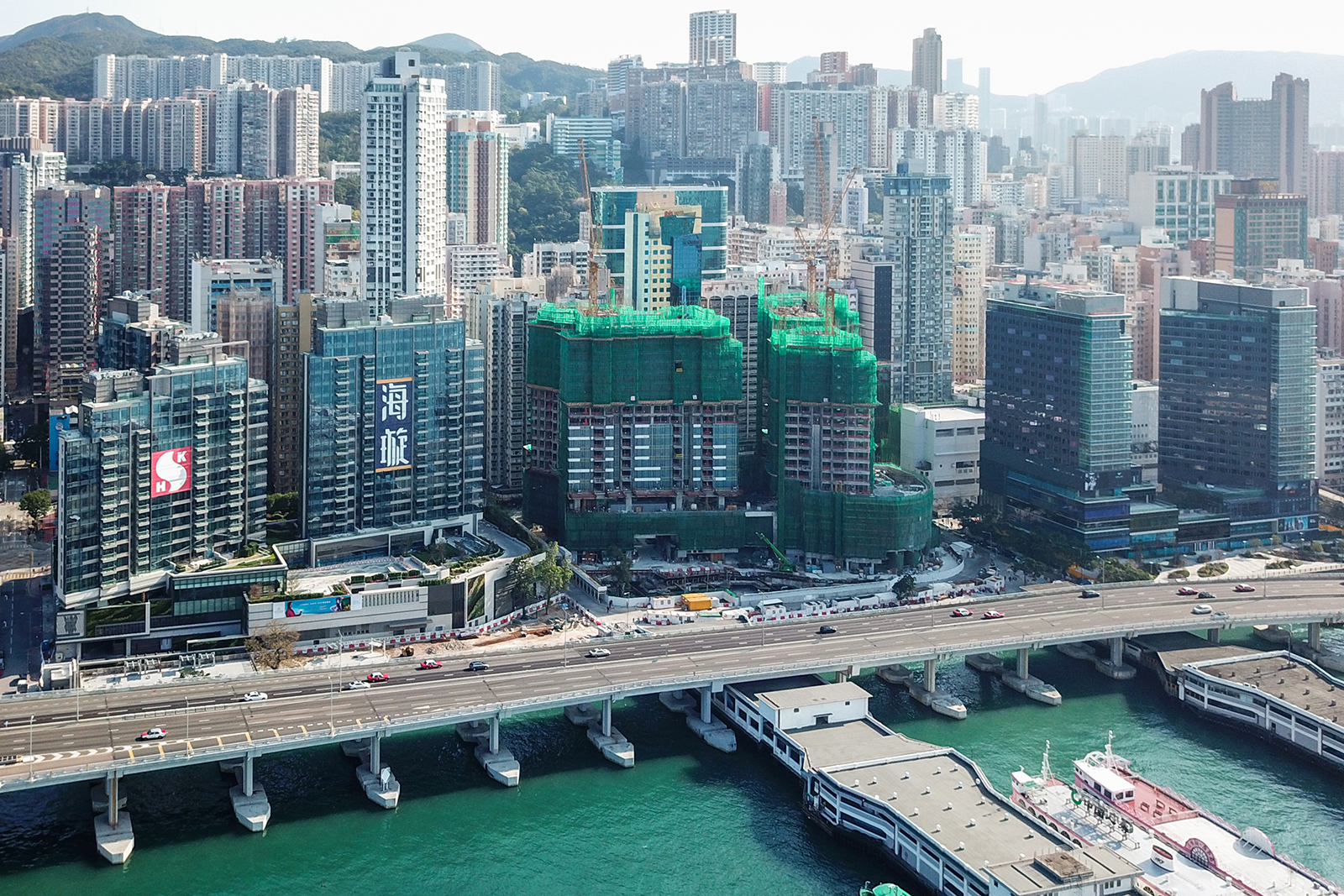 SHK Victoria Harbour